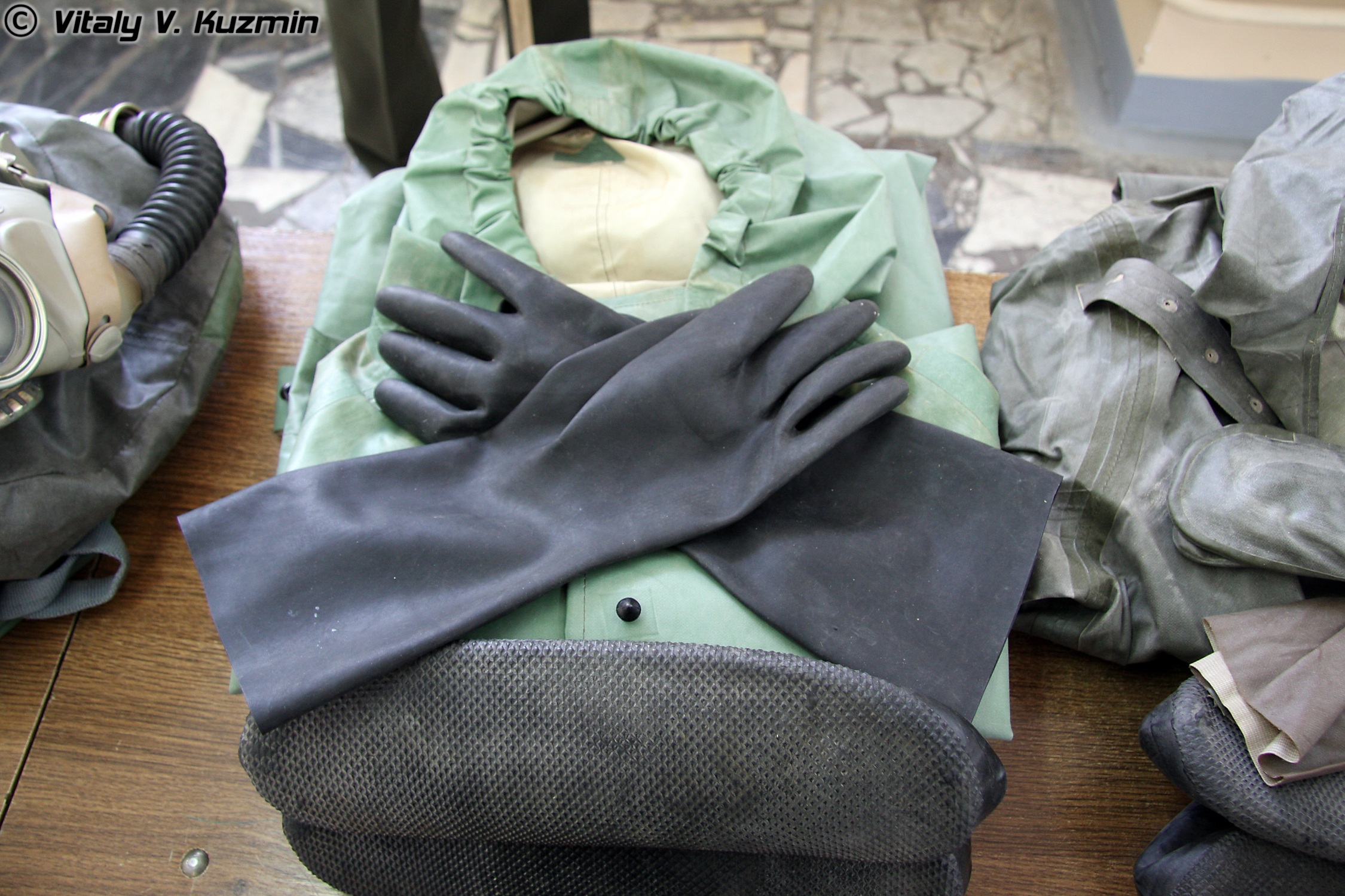 OZK